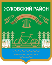 Zhukovka rayon (Bryansk oblast), coat of arms